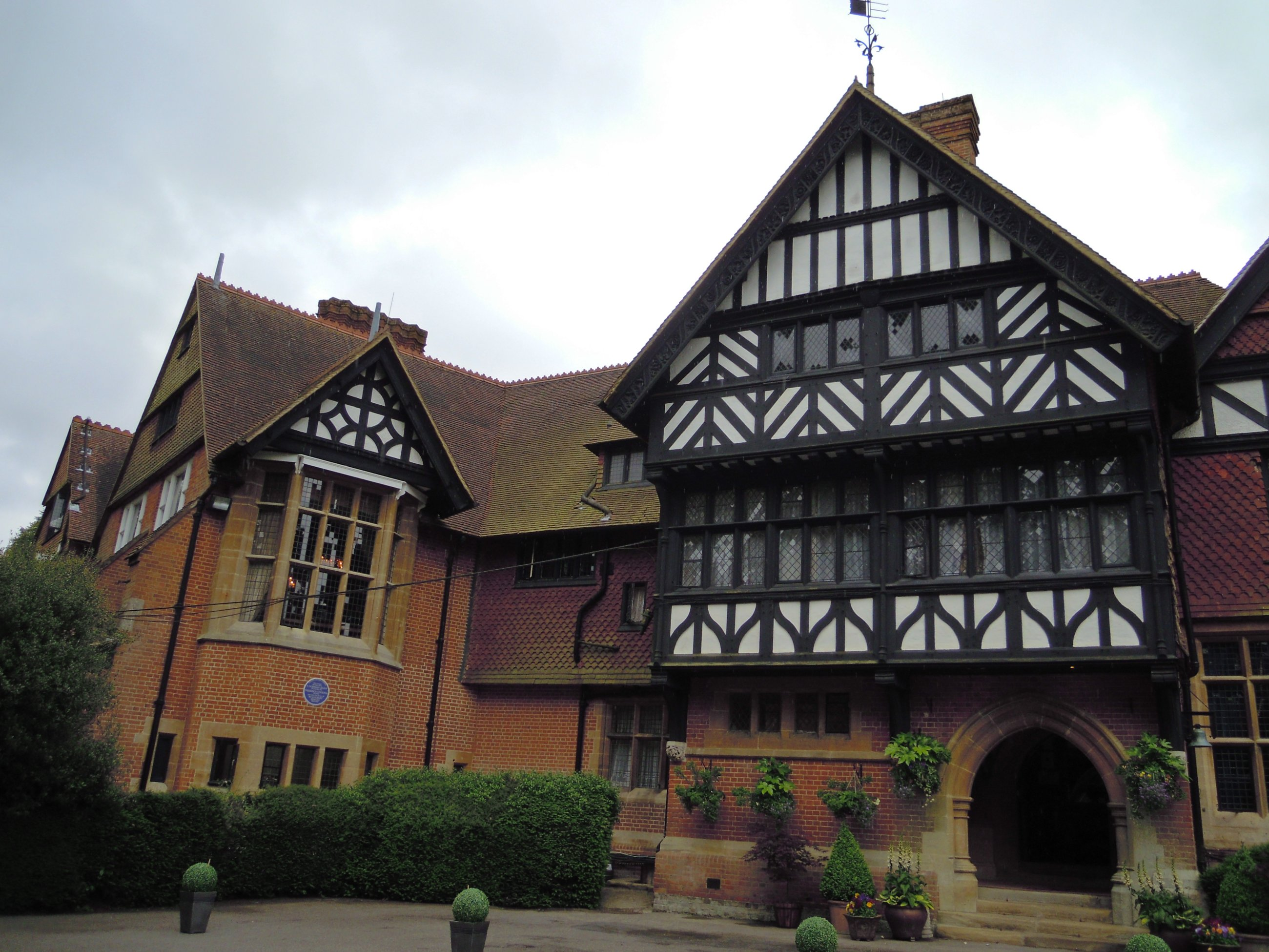 Photograph of the main entrance to Grim's Dyke in Harrow Weald, London, England.